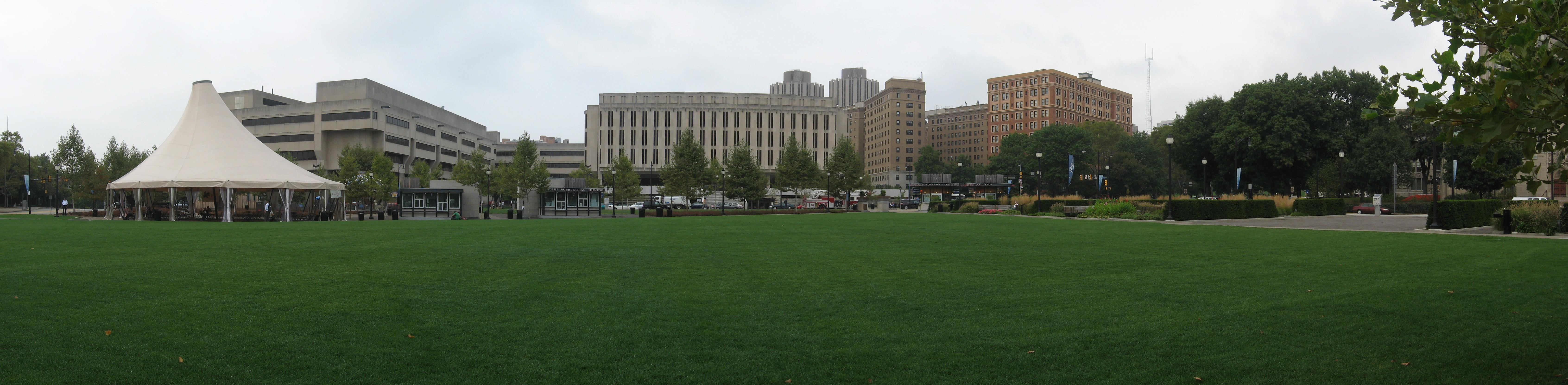 Schenley Plaza in Pittsburgh. A number of buildings from University of Pittsburgh are visible across the park.